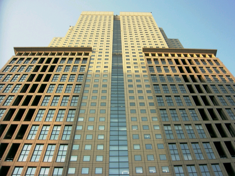 “Sanno Park Tower”